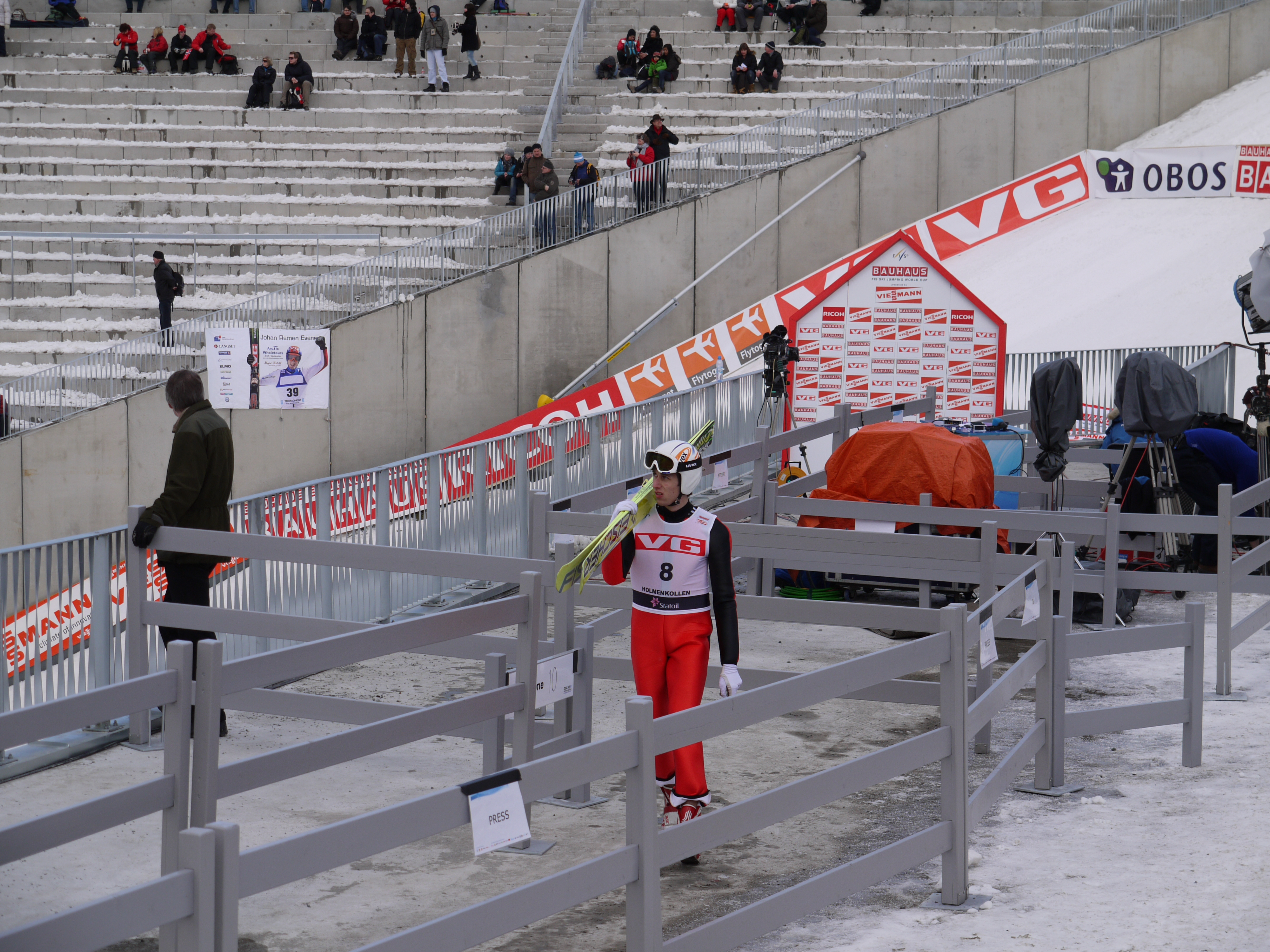 Nicholas Alexander in the 2010 World Cup event in Holmenkollen